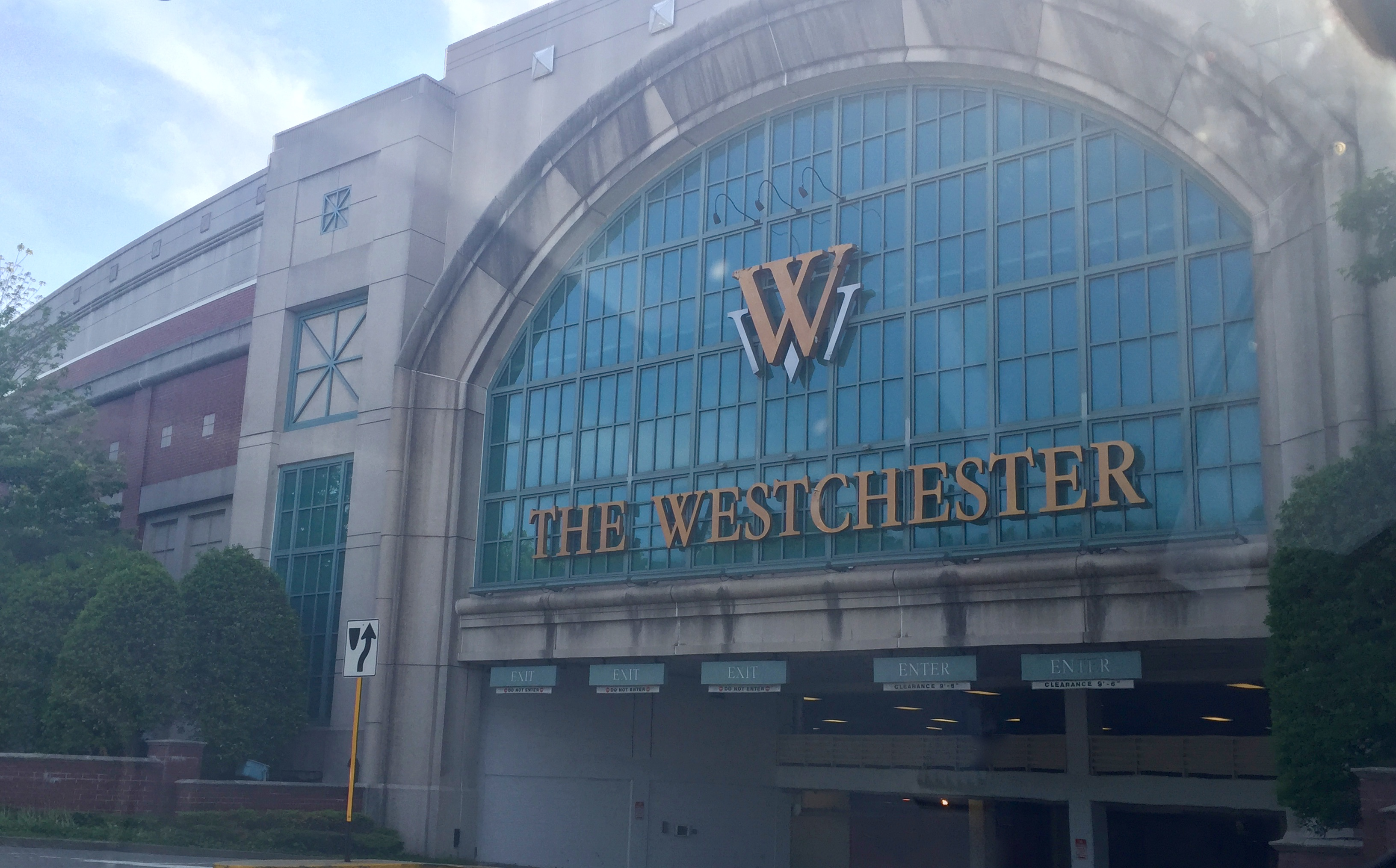 Indoor parking garage entrance to The Westchester (mall) in White Plains, NY.